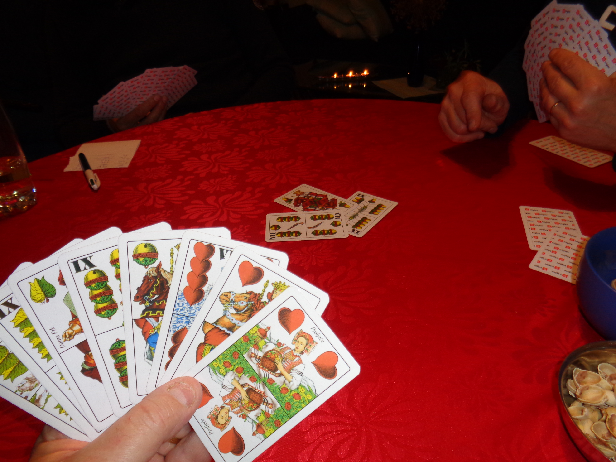 People playing preferans, Croatian version of préférence card game